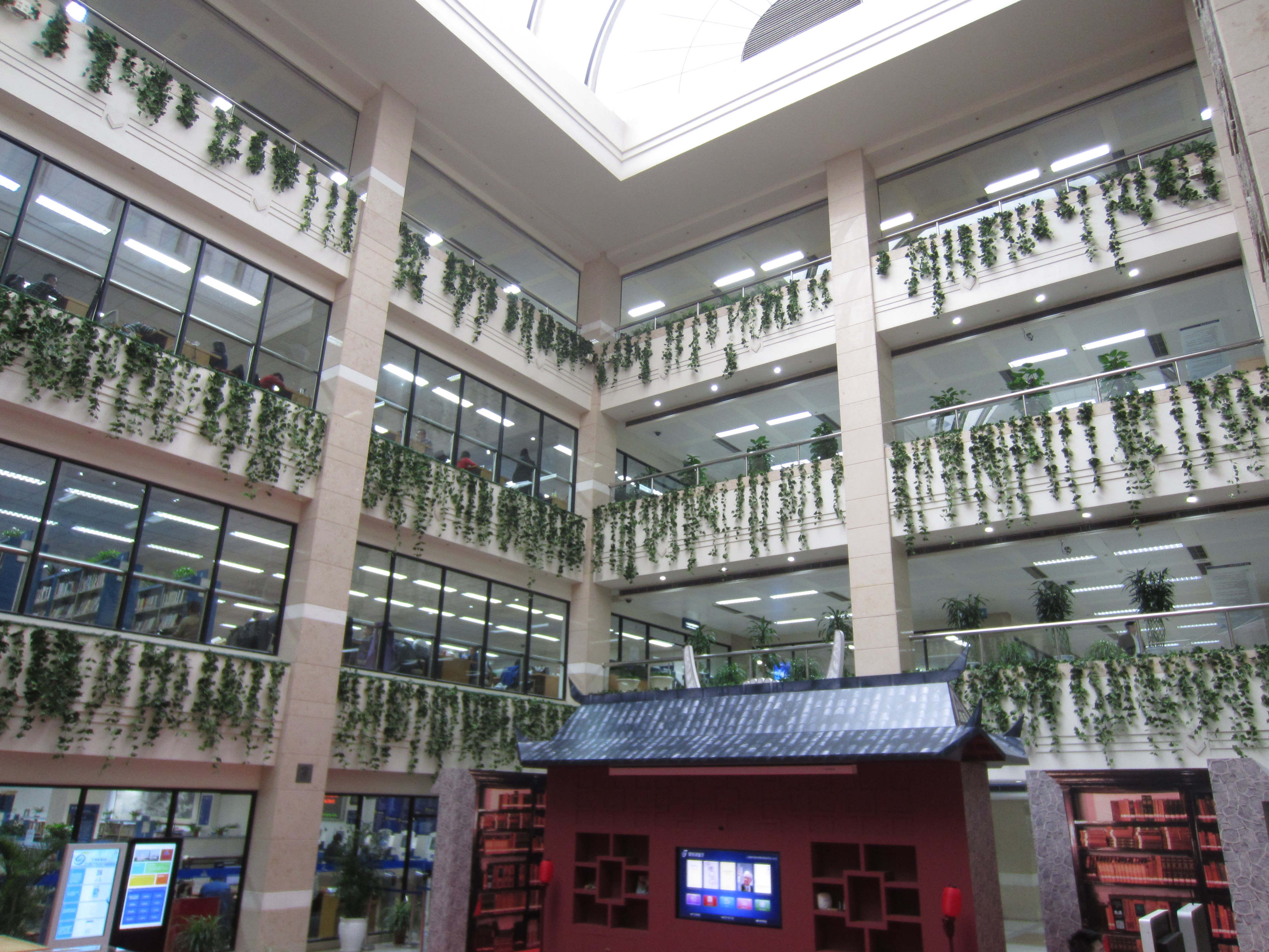 Shanghai Library, China (2015)